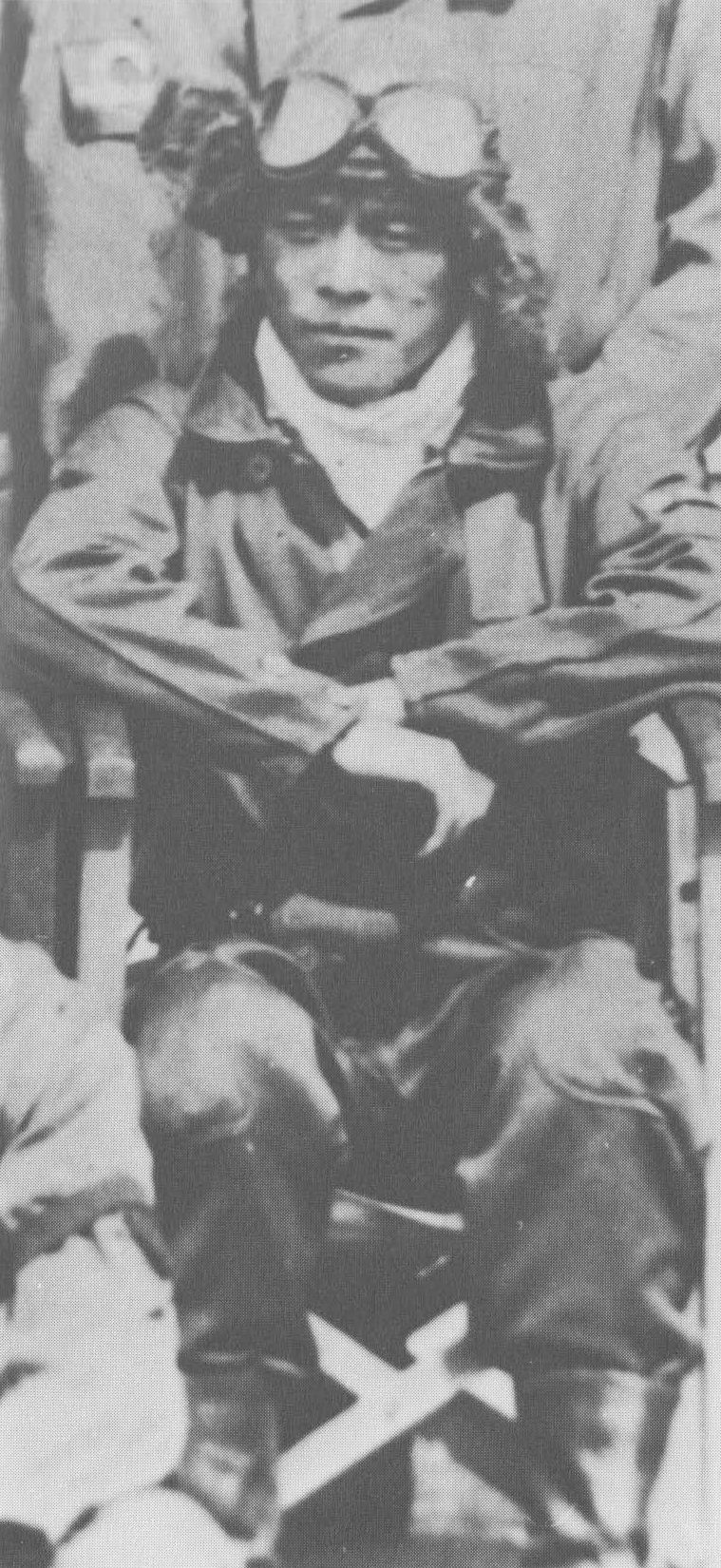 Imperial Japanese Navy fighter ace Akio Matsuba. In service in the Sino-Japanese and Pacific wars, he was credited with destroying 18 enemy aircraft. This picture was taken in 1943 while Matsuba was serving in the Atsugi Air Group.